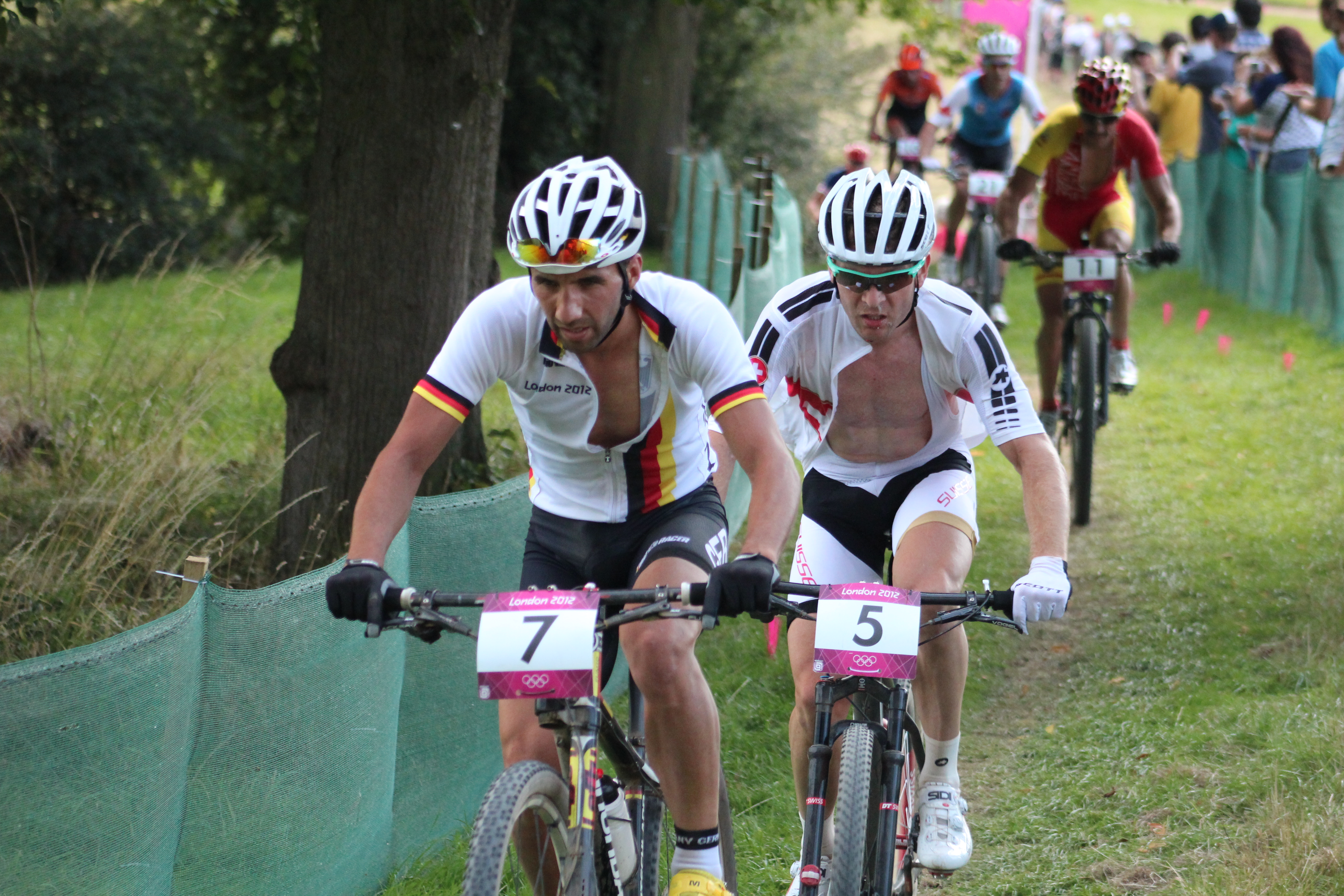 Olympic Mountain Biking - 11/12 August 2012. Hadleigh Farm.